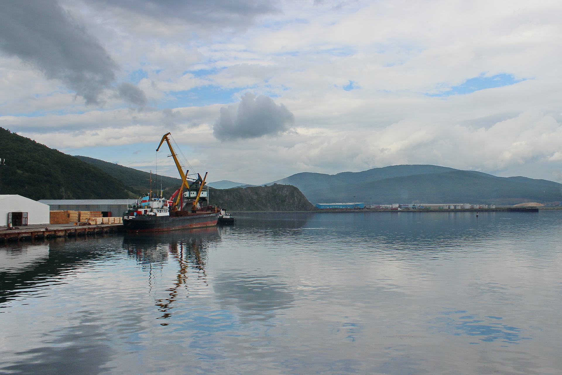 The port of Plastun: the wharf of round timber No. 1, tank farm and oil jetty. 2012.